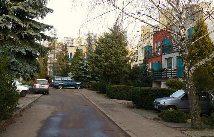 Marysienki District in Poznan.